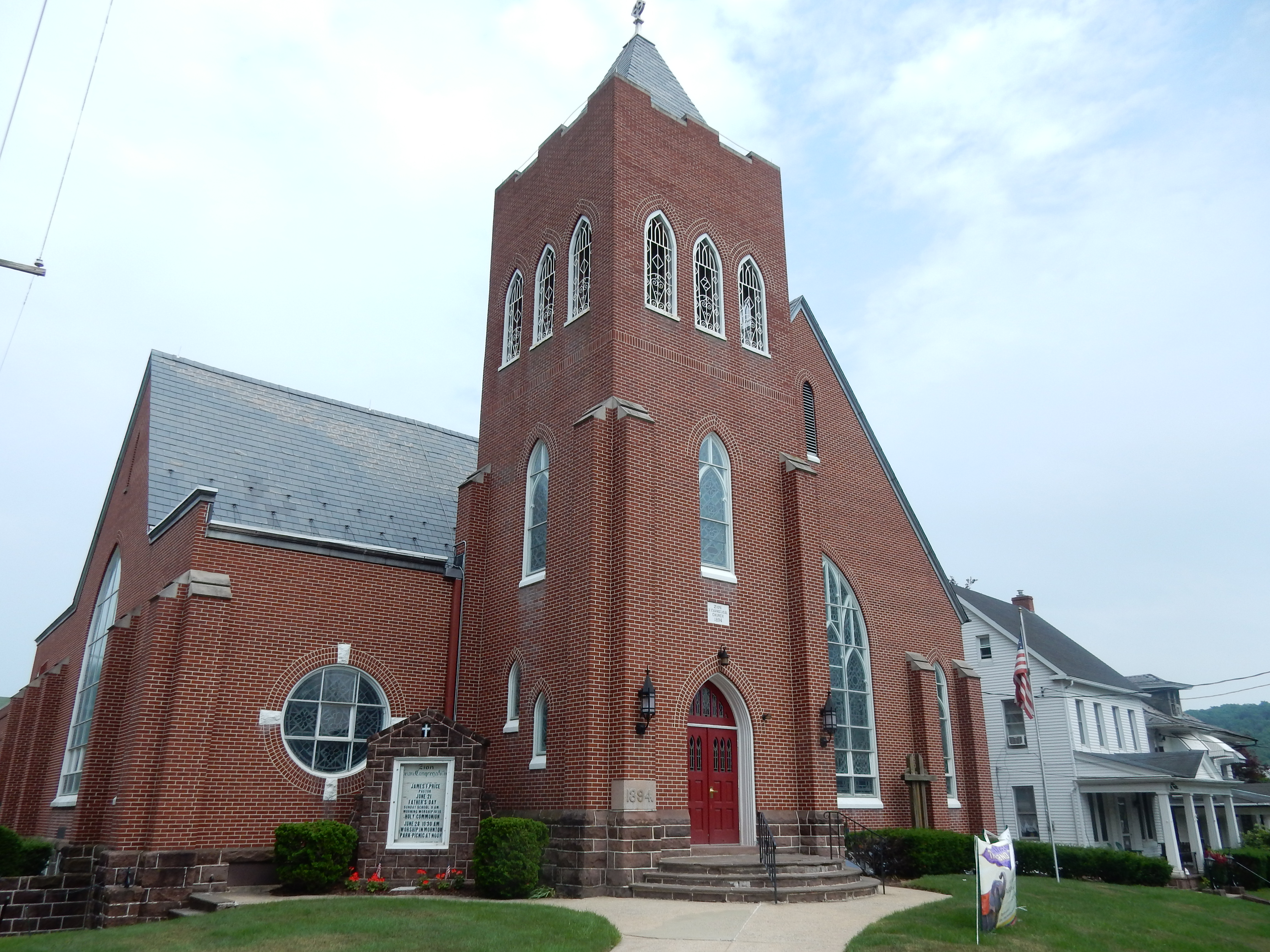 Zion Evangelical Church (1894), 57 N. Church St, Mohnton, PA. Corner of E. Summit St.